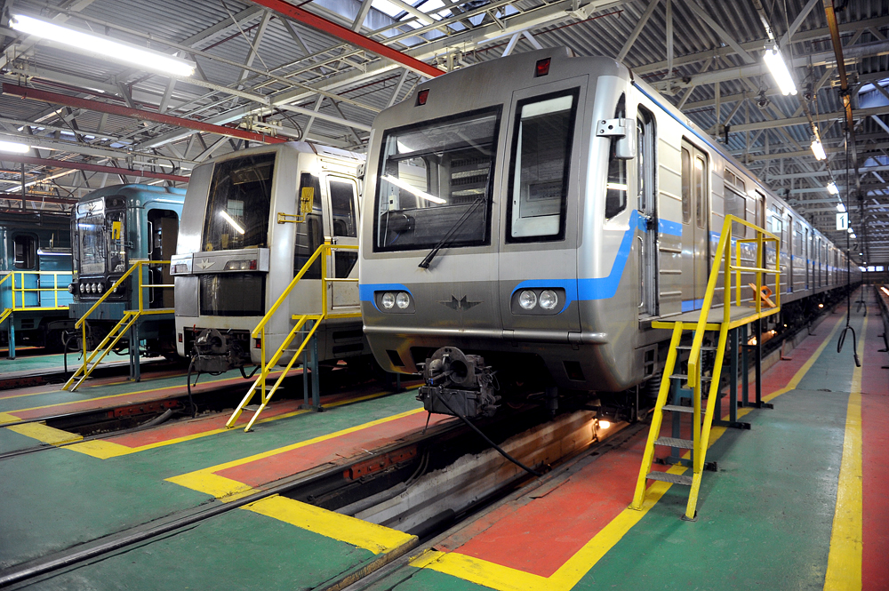 Metro electric trains in the depot Pechatniki of Moscow Metro. From right to left: 81-717.6/714.6, 81-720/721 and 81-717/714